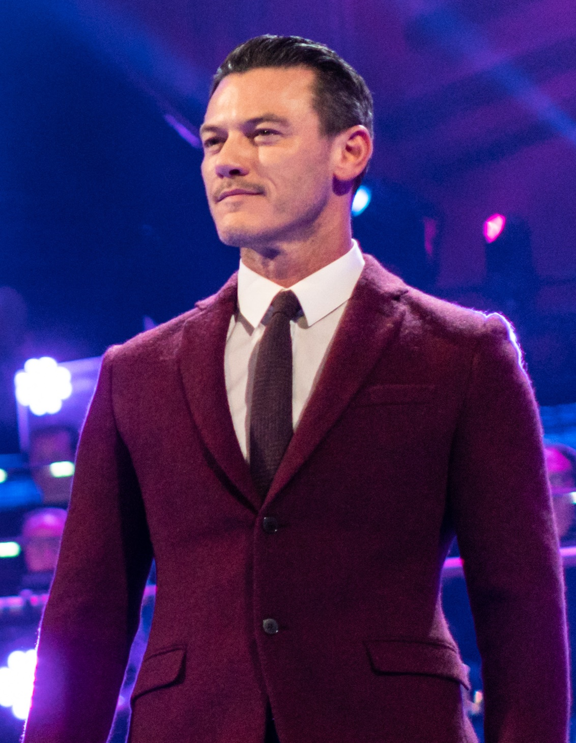 Evans at the Queen's Birthday Party held at the Royal Albert Hall in 2018